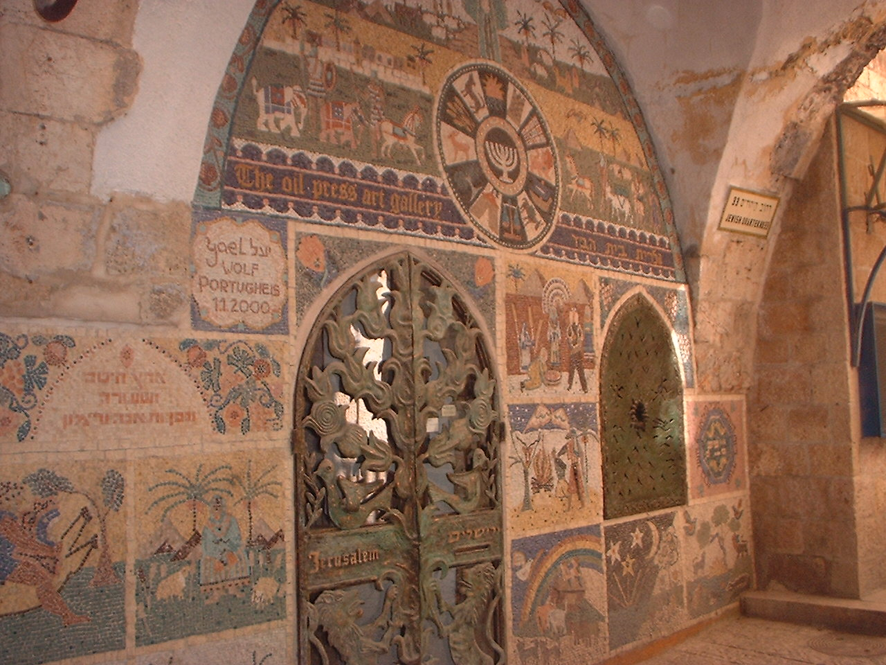 Mosaic in the Jewish Quarter (Jerusalem). This is come sort of store in the Jewish quarter of the old city. Very nicely decorated.